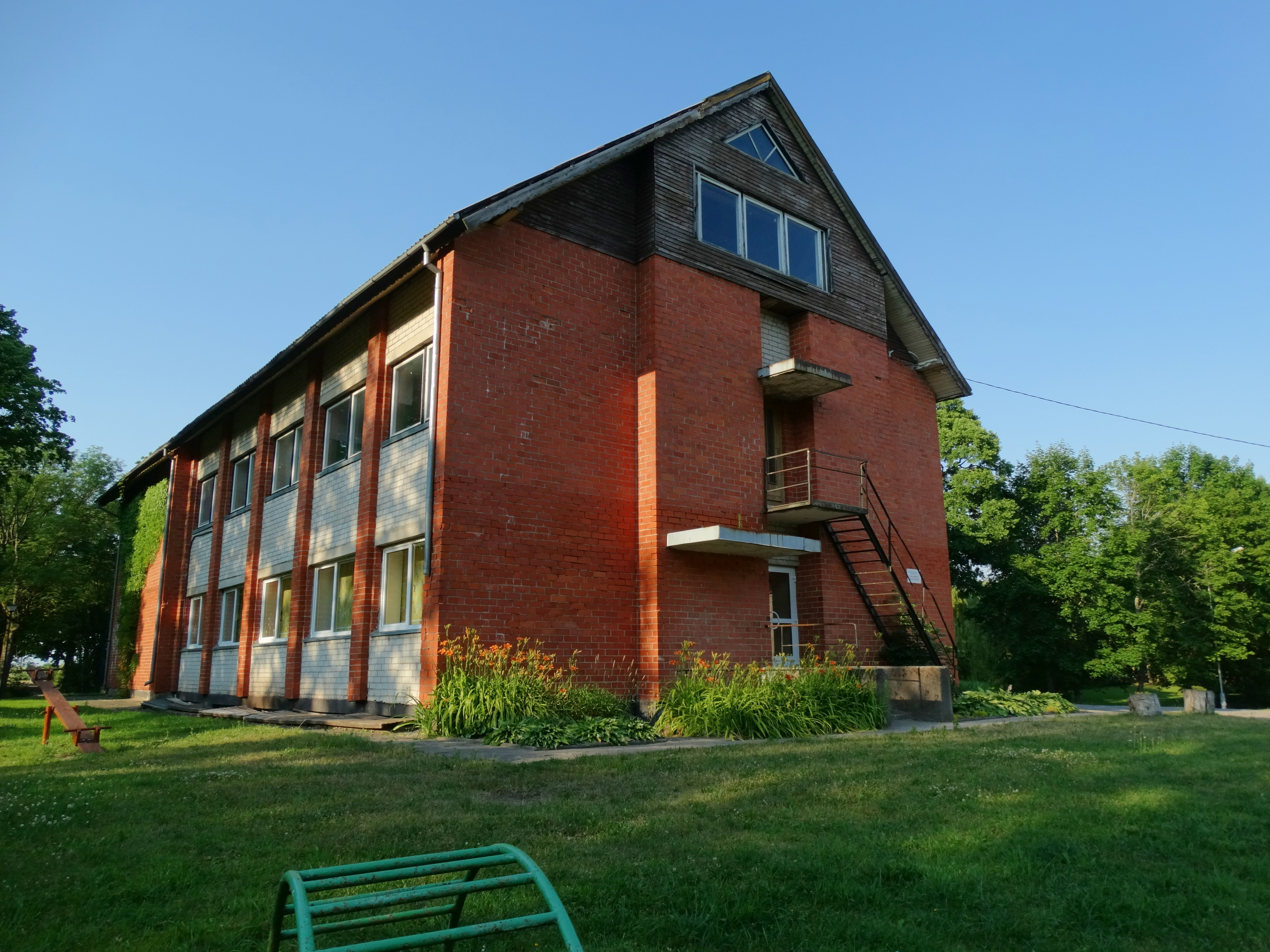 School, Degaičiai, Telšiai district, Lithuania